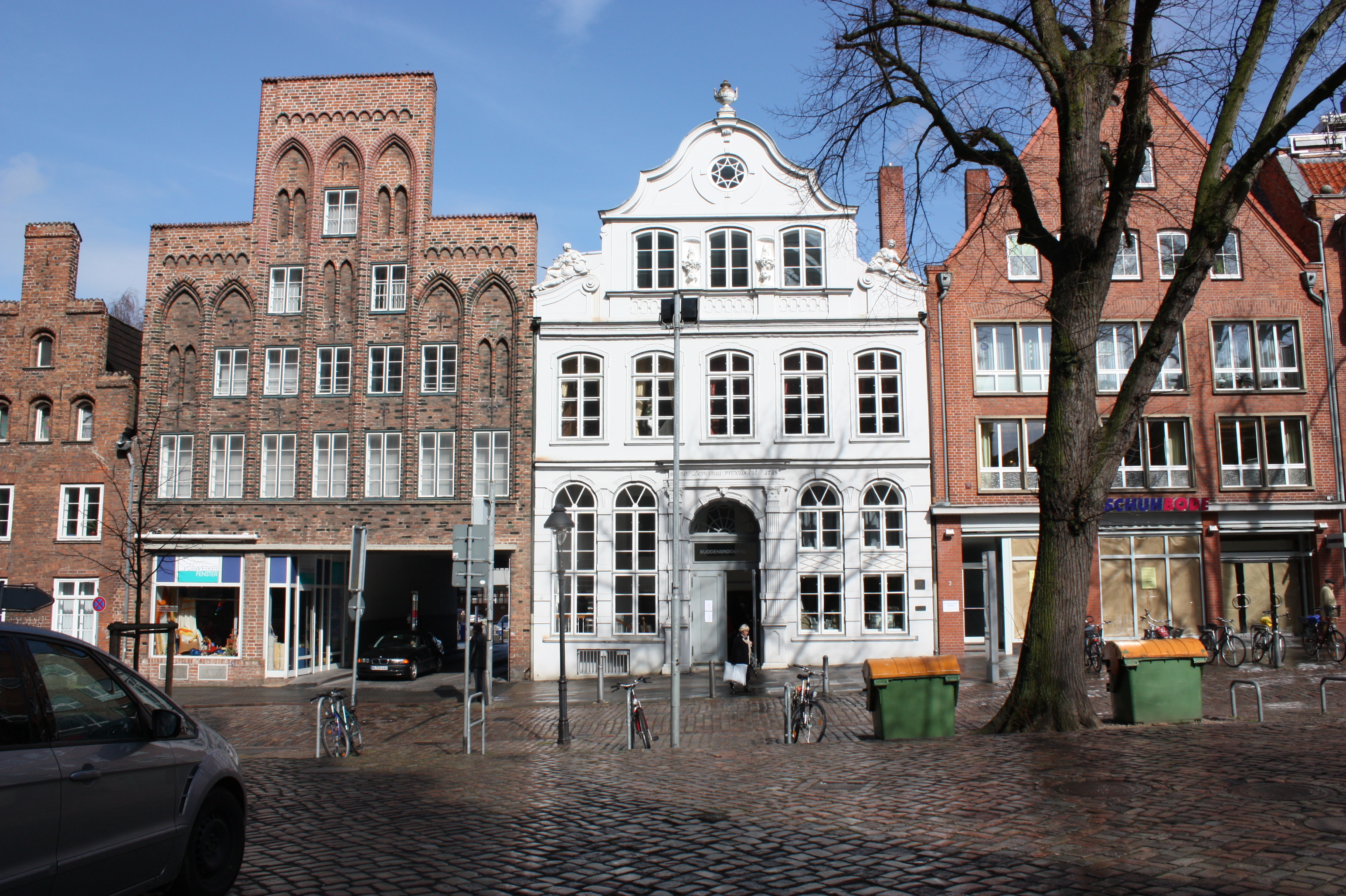 Buddenbrooks House in Lübeck, Germany